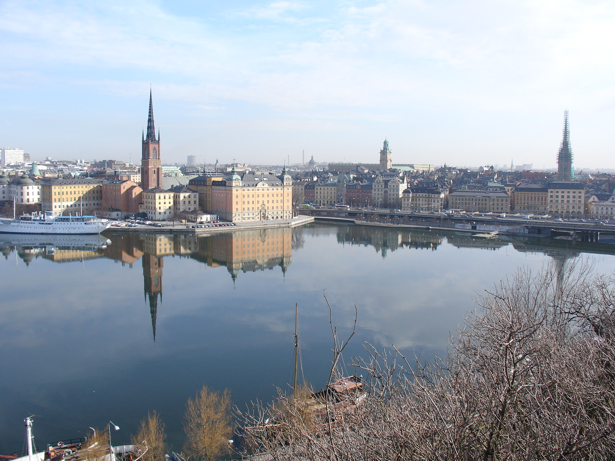 Gamla stan (Old Town) and Riddarholmen in Stockholm, Sweden